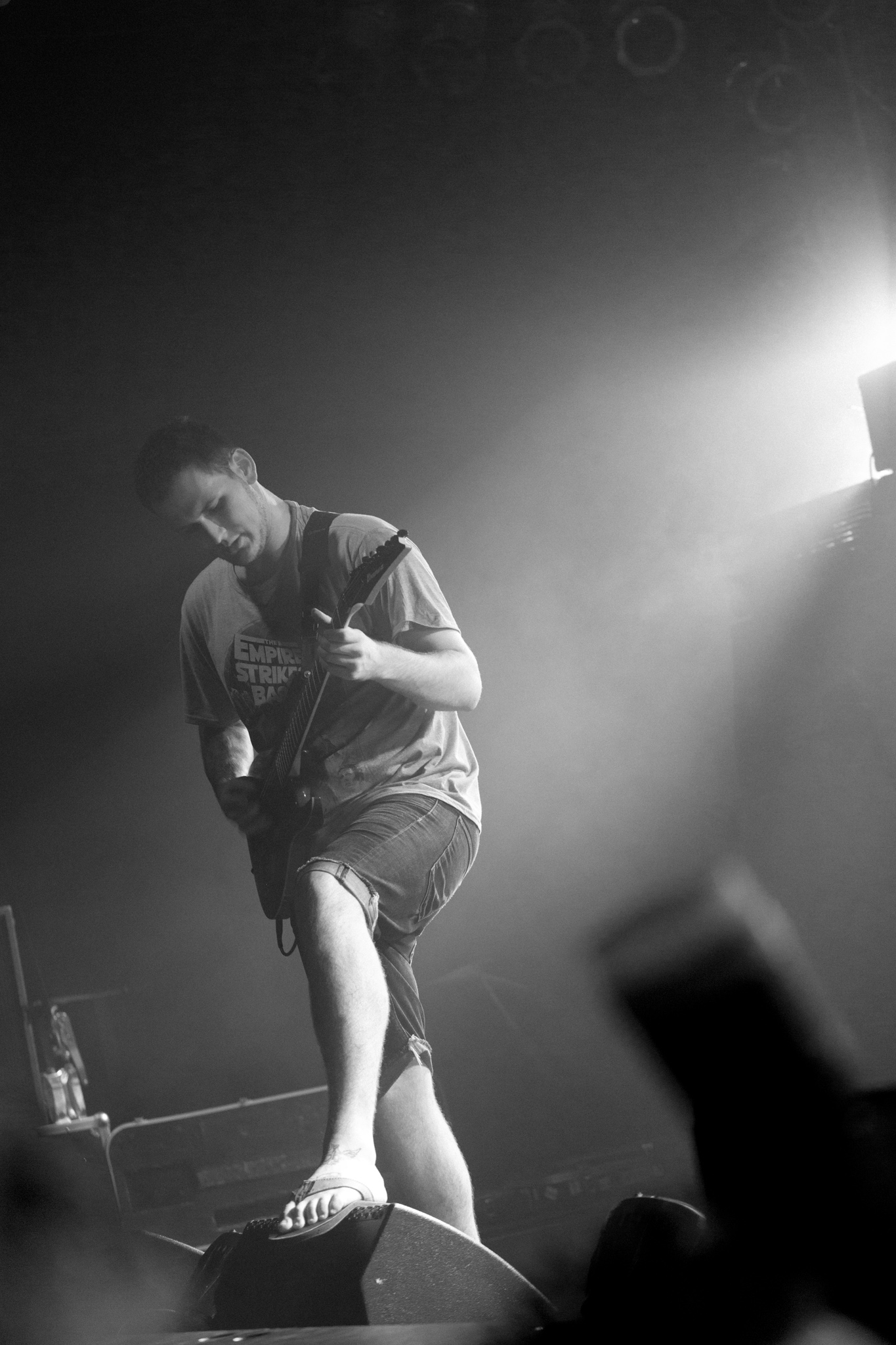 Fuck You and Die performing at the Euroblast Festival in Cologne, October 2014; Sascha Rissling